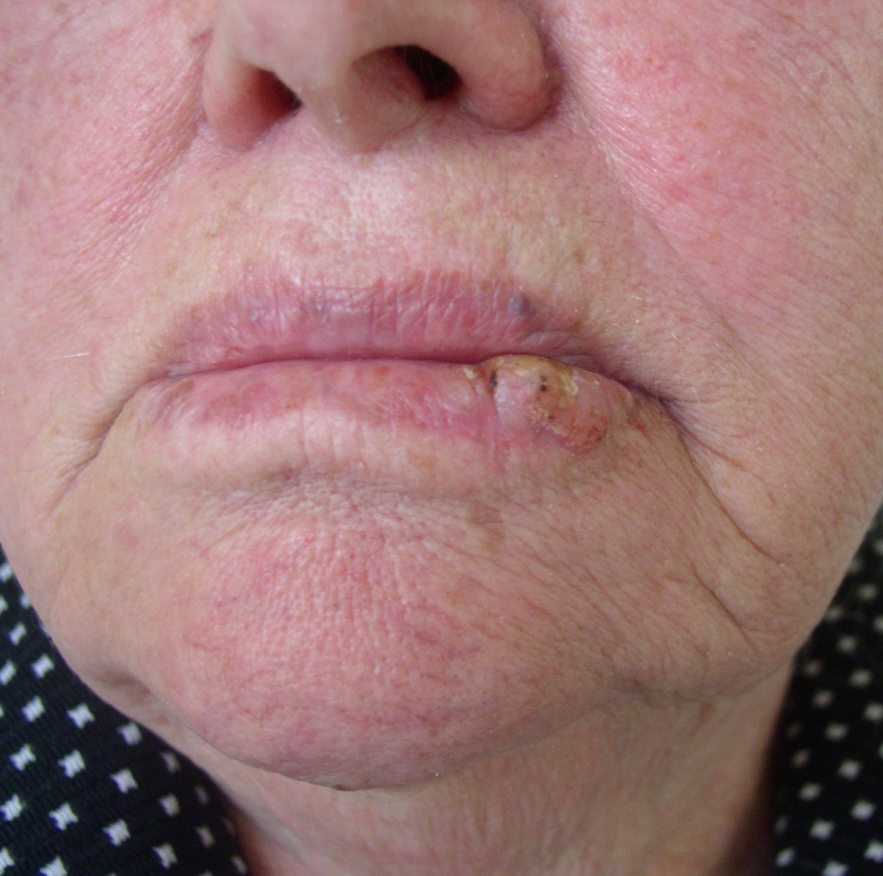 Epithelioma spinocellulare (83-year-old woman)